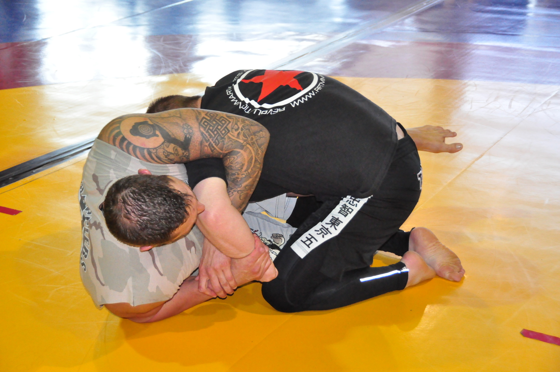 Neil Melanson demonstrating a Kimura armlock.